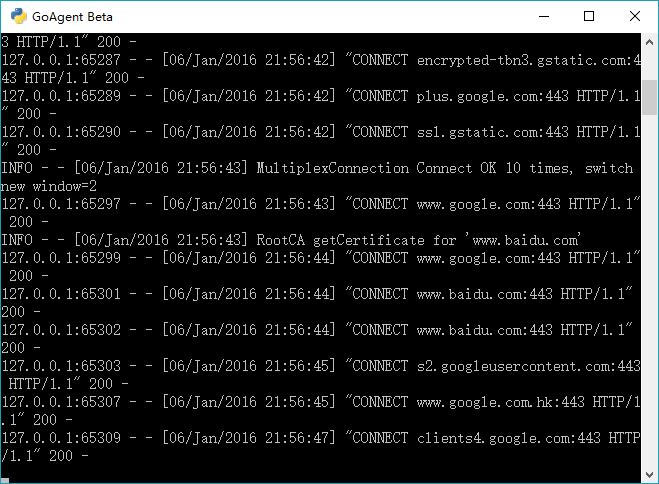 A running GoAgent client which is fetching data from Google